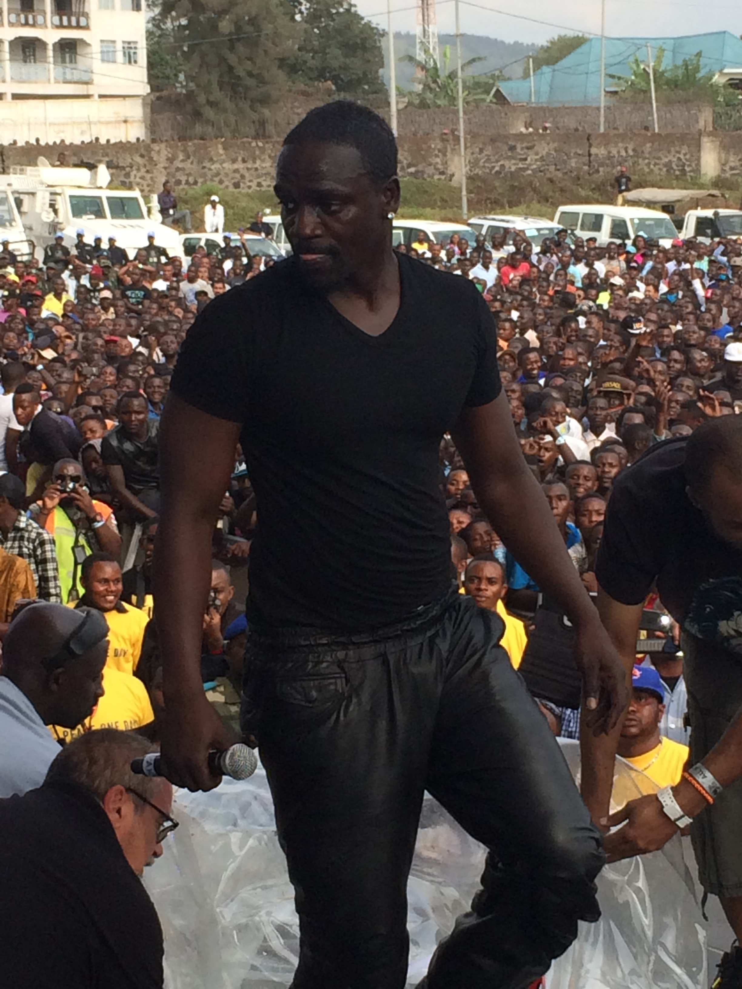 concert de Peace one Day @ Goma in September 2014